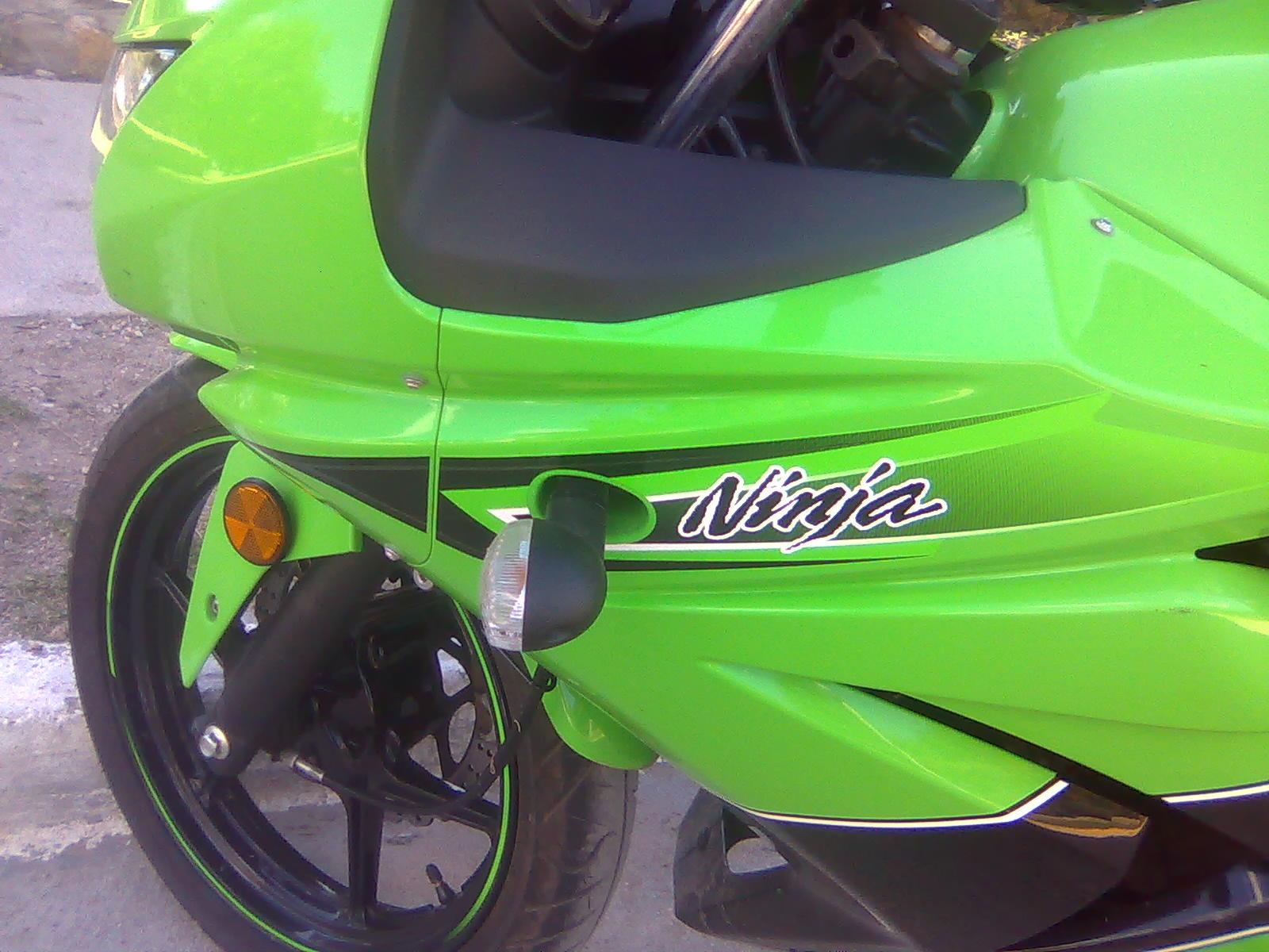 Kawasaki ninja 250